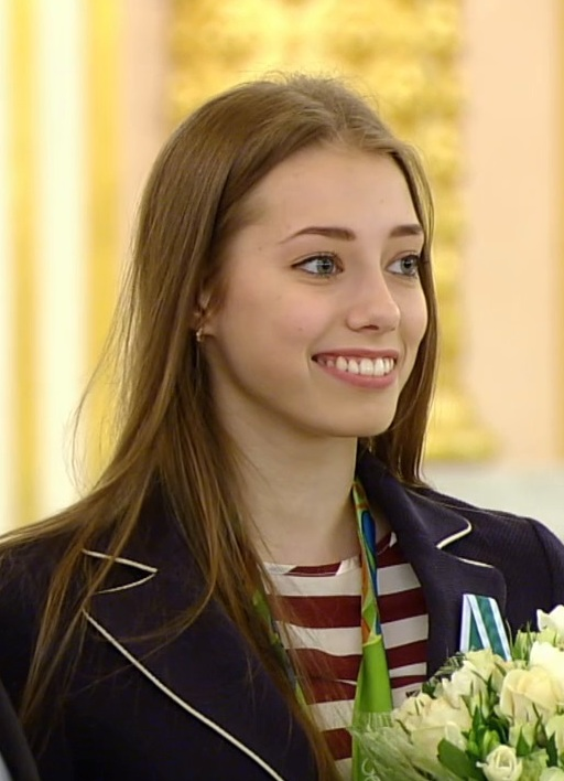 Vladimir Putin presented state awards to the Russian athletes who won gold medals at the 2016 Olympic Games in Rio de Janeiro (Brazil).